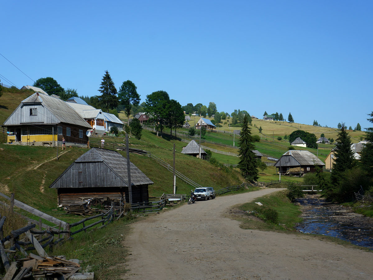 village Svoboda AlongCarpathian Expedition 27.07-27.08.2013